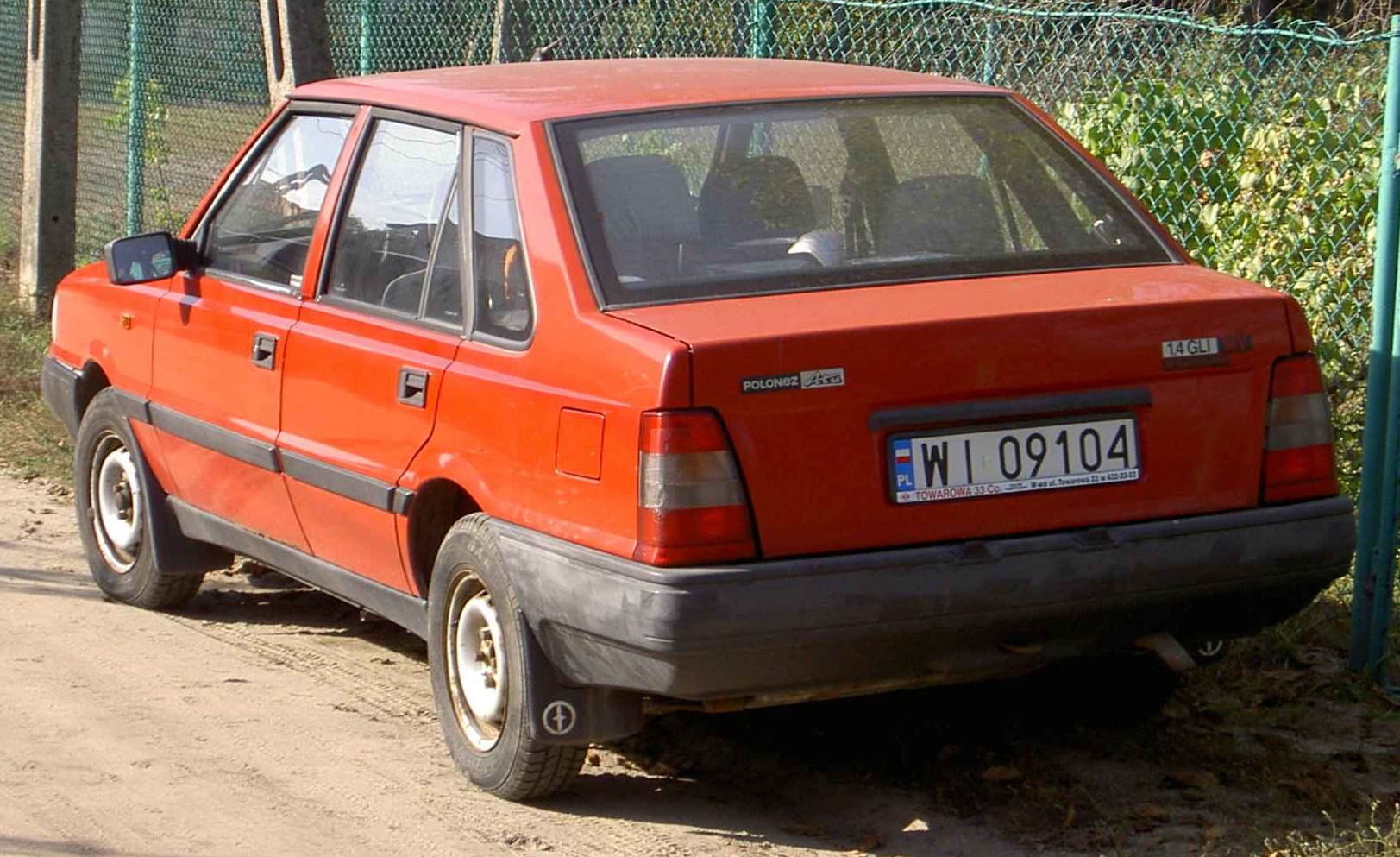 FSO Polonez Atu seen outside Piaseczno.